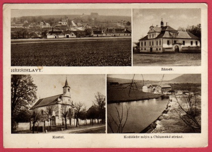 Scan of a postcard of Hřešihlavy, mailed in 1940